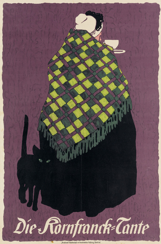 Louis Oppenheim - Die Kornfranck-Tante, c. 1908, poster, 72 by 48 cm. Kornfranck was a German brand of coffee substitutes. This poster ist often falsely attributed to Ludwig Hohlwein, who designed posters for other brands